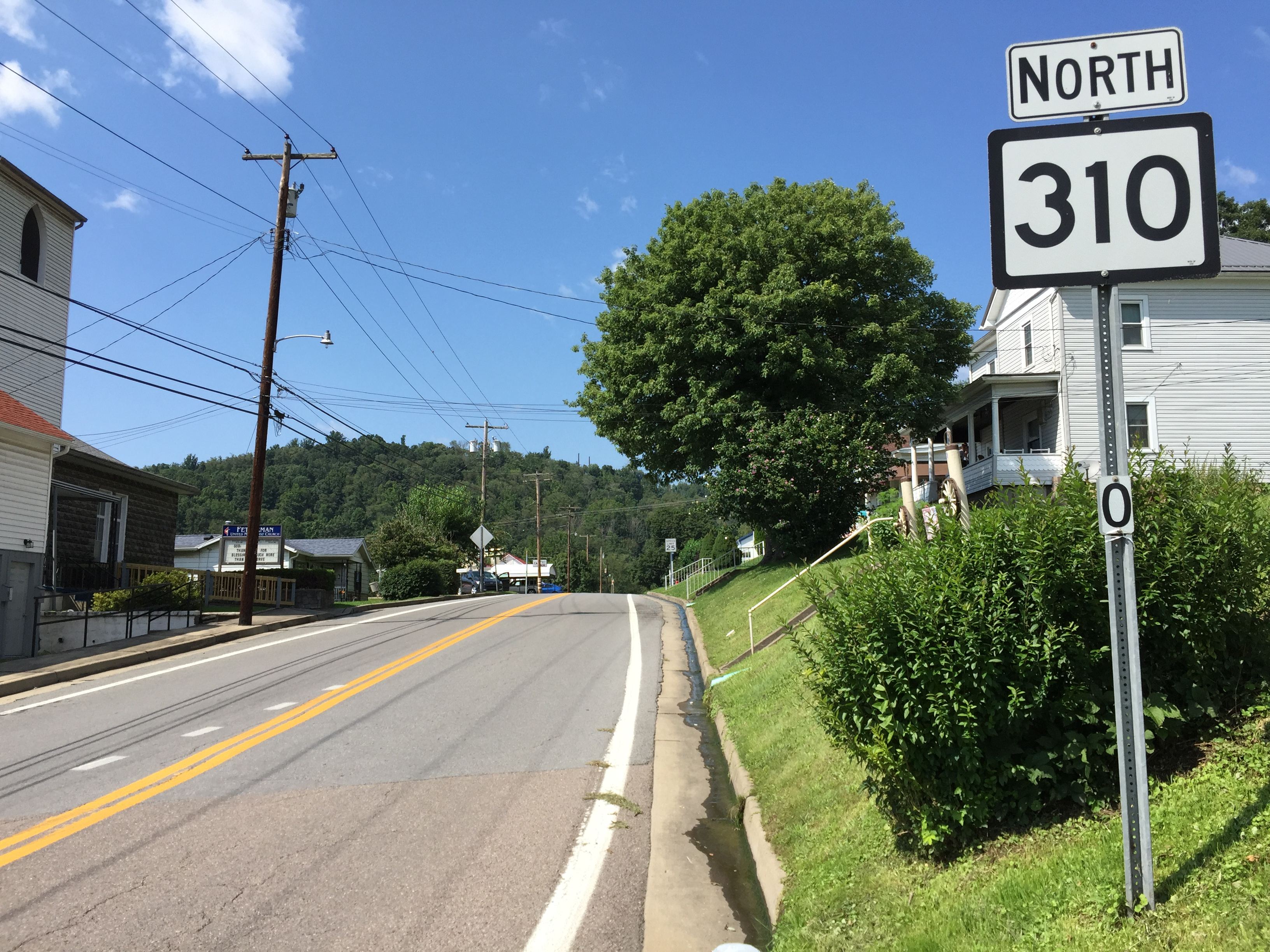 View north along West Virginia State Route 310 (Country Club Road) at U.S. Route 50 (Northwestern Turnpike) in Grafton, Taylor County, West Virginia